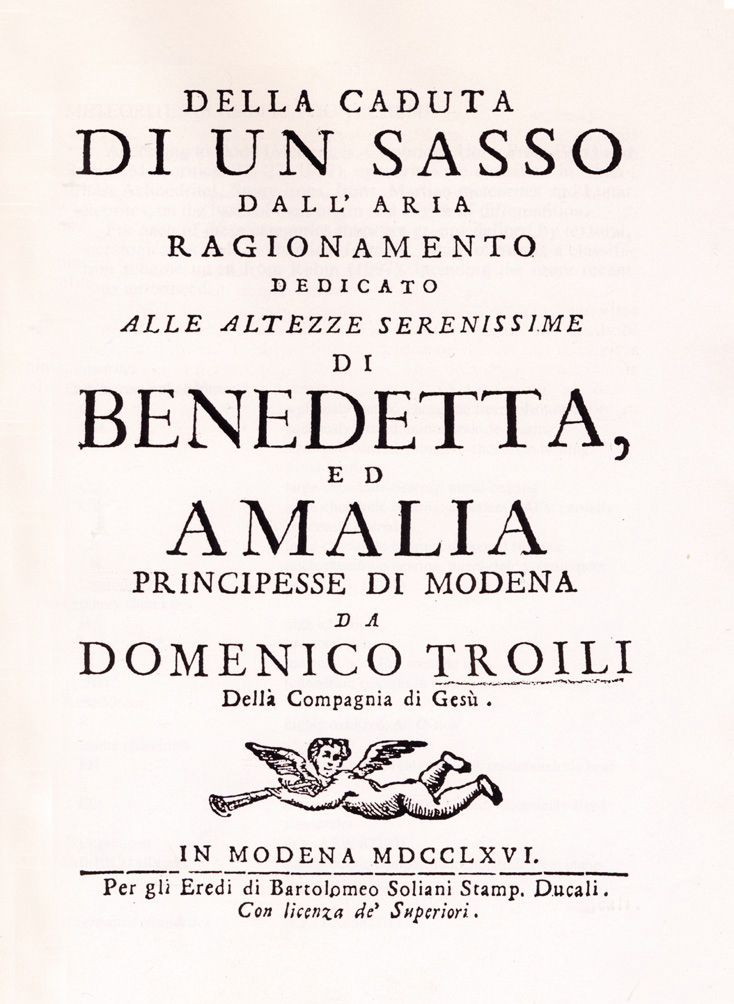 Cover of the manuscript by D. Troili (1722-1792) published in 1766